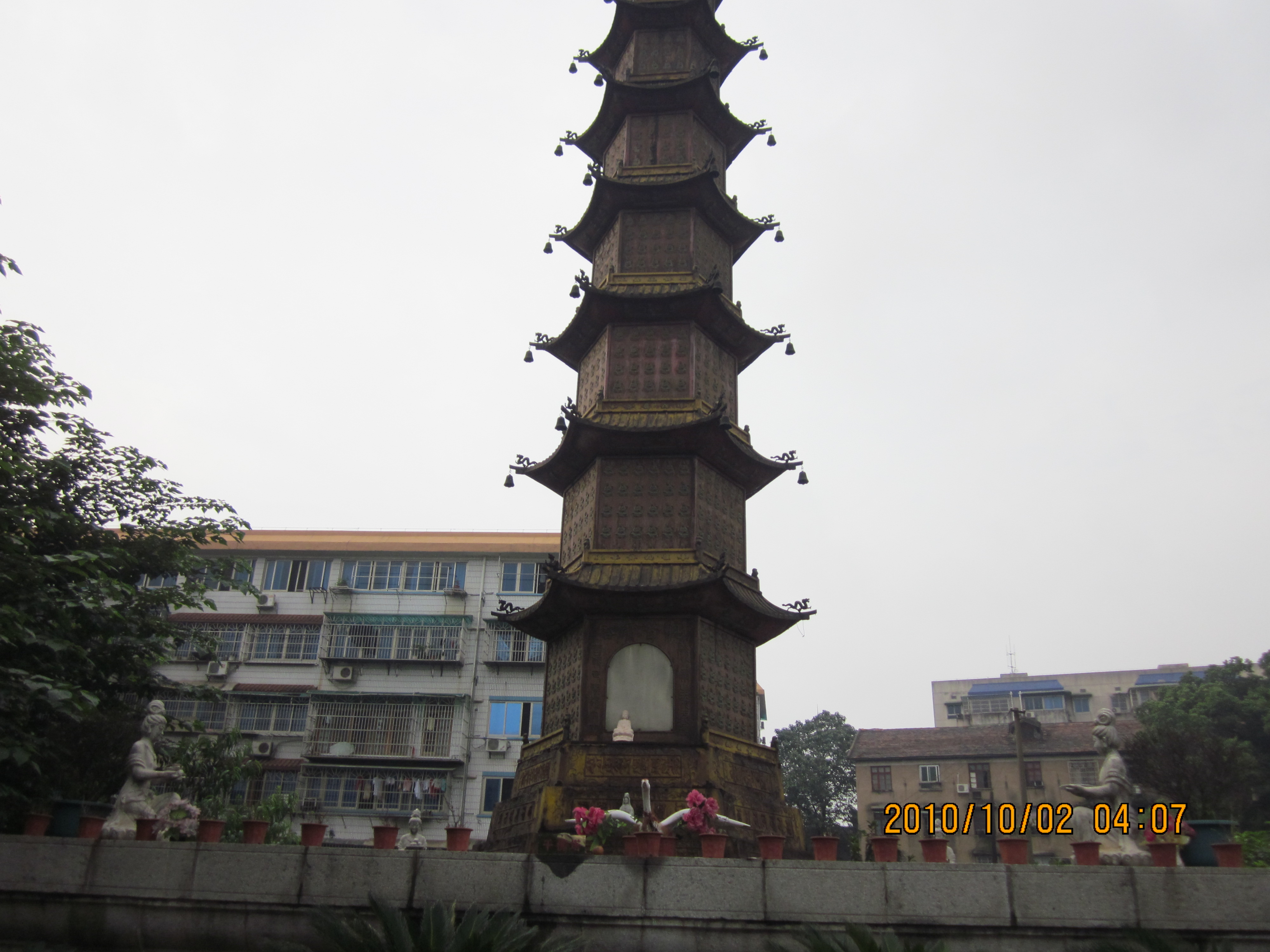 The Dagoba Pagoda at Kai Fu temple. Changsha's famous Buddhist temple.